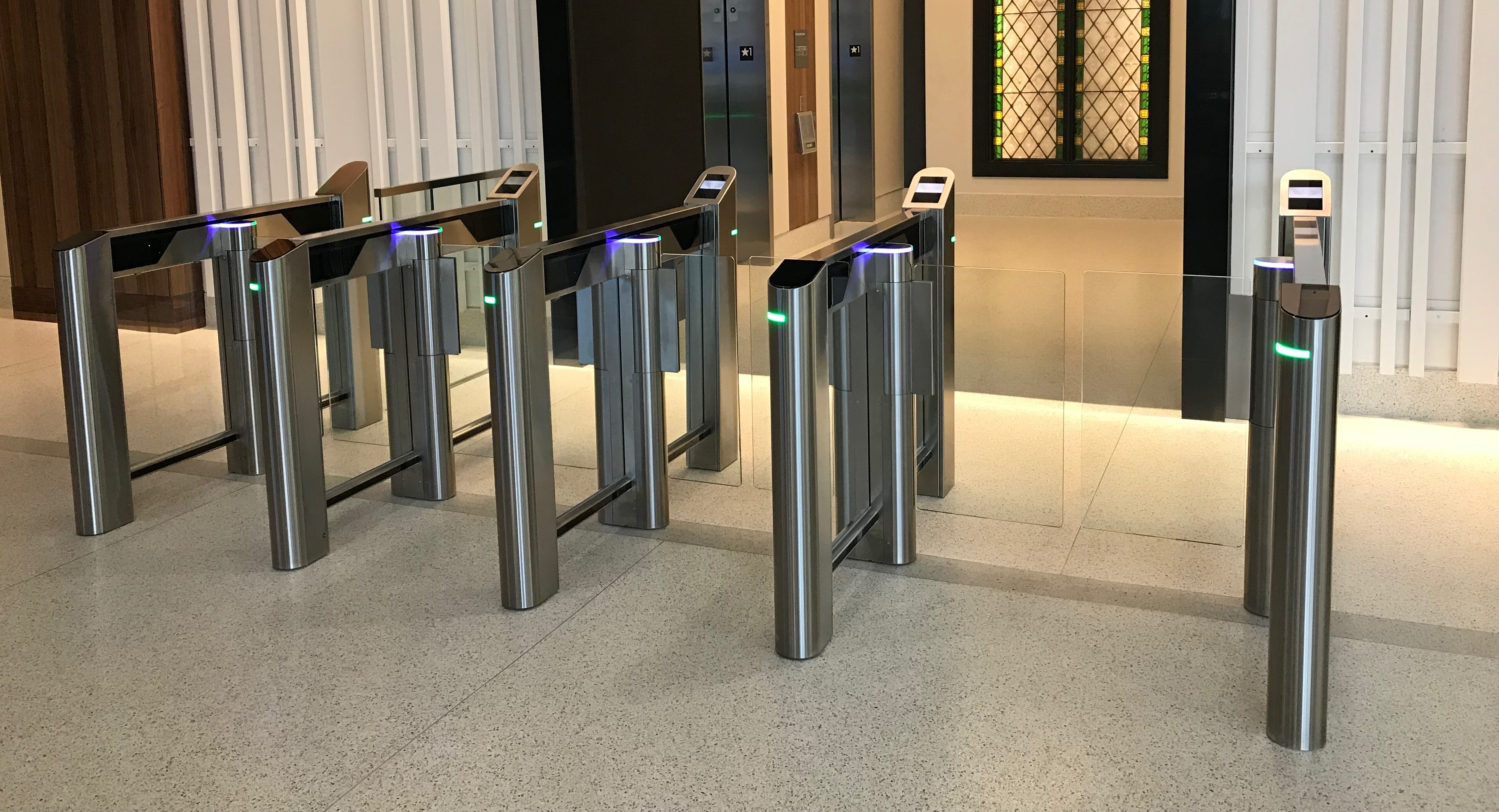 Automatic Systems SlimLane EPR swing glass optical turnstile with QR bar code reader and elevator destination dispatch screen